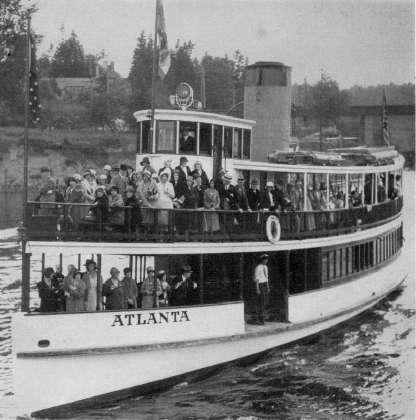 Steamboat Atlanta, on excursion carrying persons attending a medical convention in 1931.